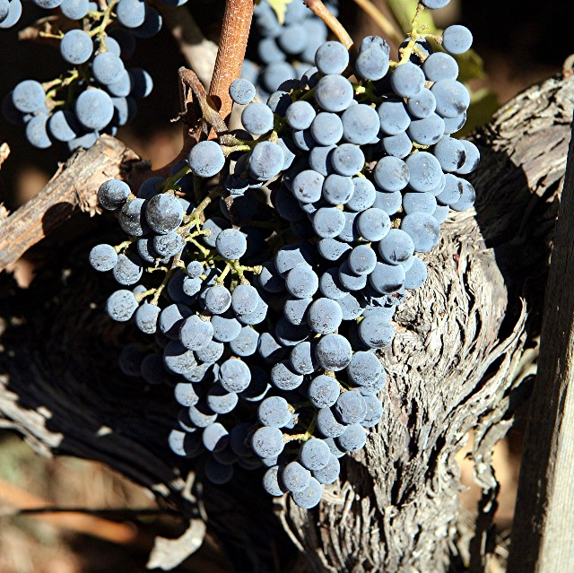 Image of Cab Franc clusters on the vine in Glen Ellen, California.